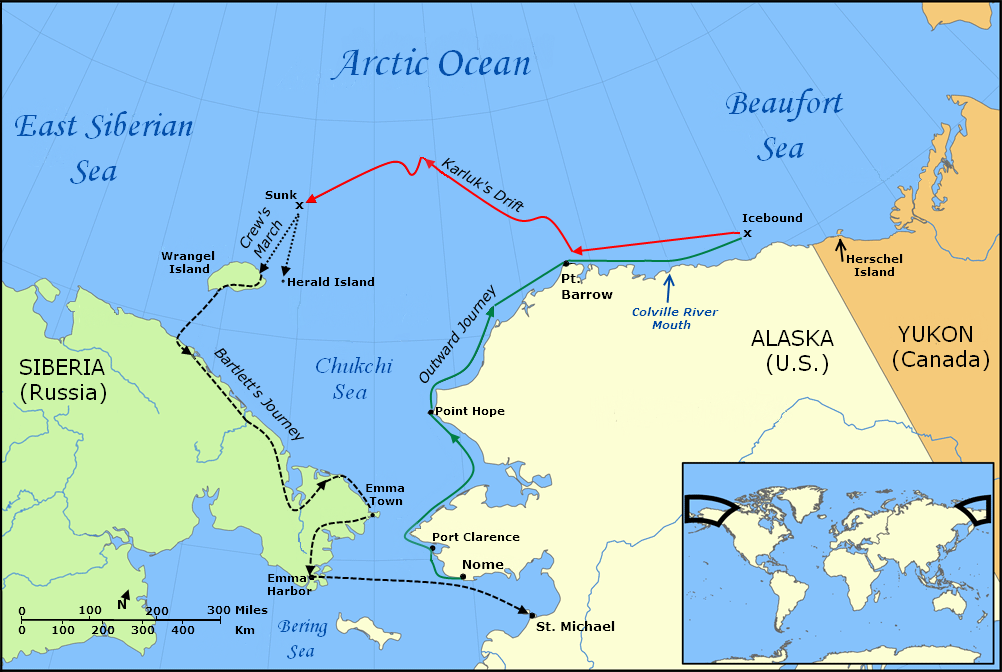 Map of the Voyage of the Karluk, including the outbound journey from Nome, the ship's drift in Arctic pack ice, the crew's icy march to Wrangel Island, and Captain Bartlett's journey on foot from Wrangel Island to Emma Harbor in Siberia, and then by ship to St. Michael, Alaska